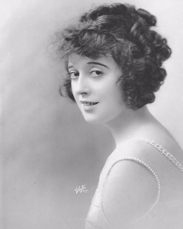 Portrait of American actress Mabel Normand (1892–1930) by American photographer Albert Witzel (1879–1929).